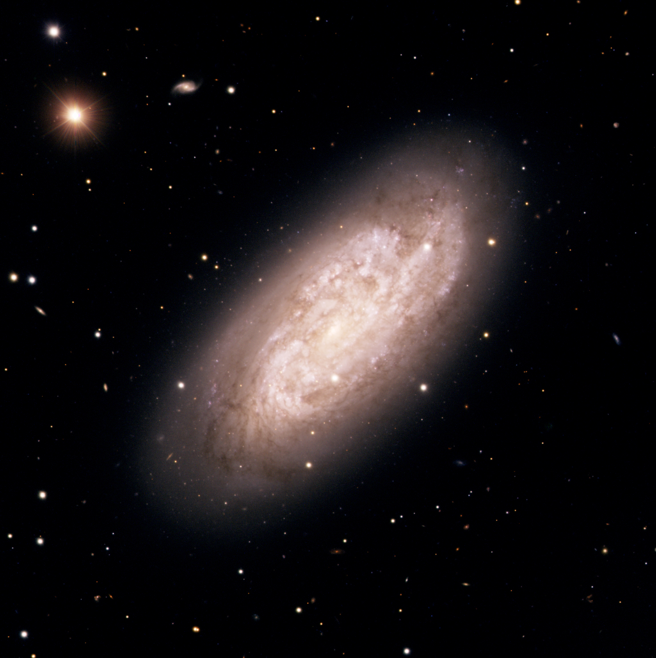 Colour composite image of the starburst spiral galaxy NGC 1792 obtained with the FORS1 and FORS2 multi-mode instruments (at VLT MELIPAL and YEPUN, respectively). Its optical appearance of NGC 1792 is quite chaotic, due to the patchy distribution of dust throughout the disc of this galaxy. It is very rich in neutral hydrogen gas - fuel for the formation of new stars - and is indeed rapidly forming such stars. The galaxy is characterized by unusually luminous far-infrared radiation; this is due to dust heated by young stars. Note the numerous background galaxies in this sky field. North is up and East is to the left. ID: phot-33b-03-fullres Size: 2297x2306 Credit: ESO